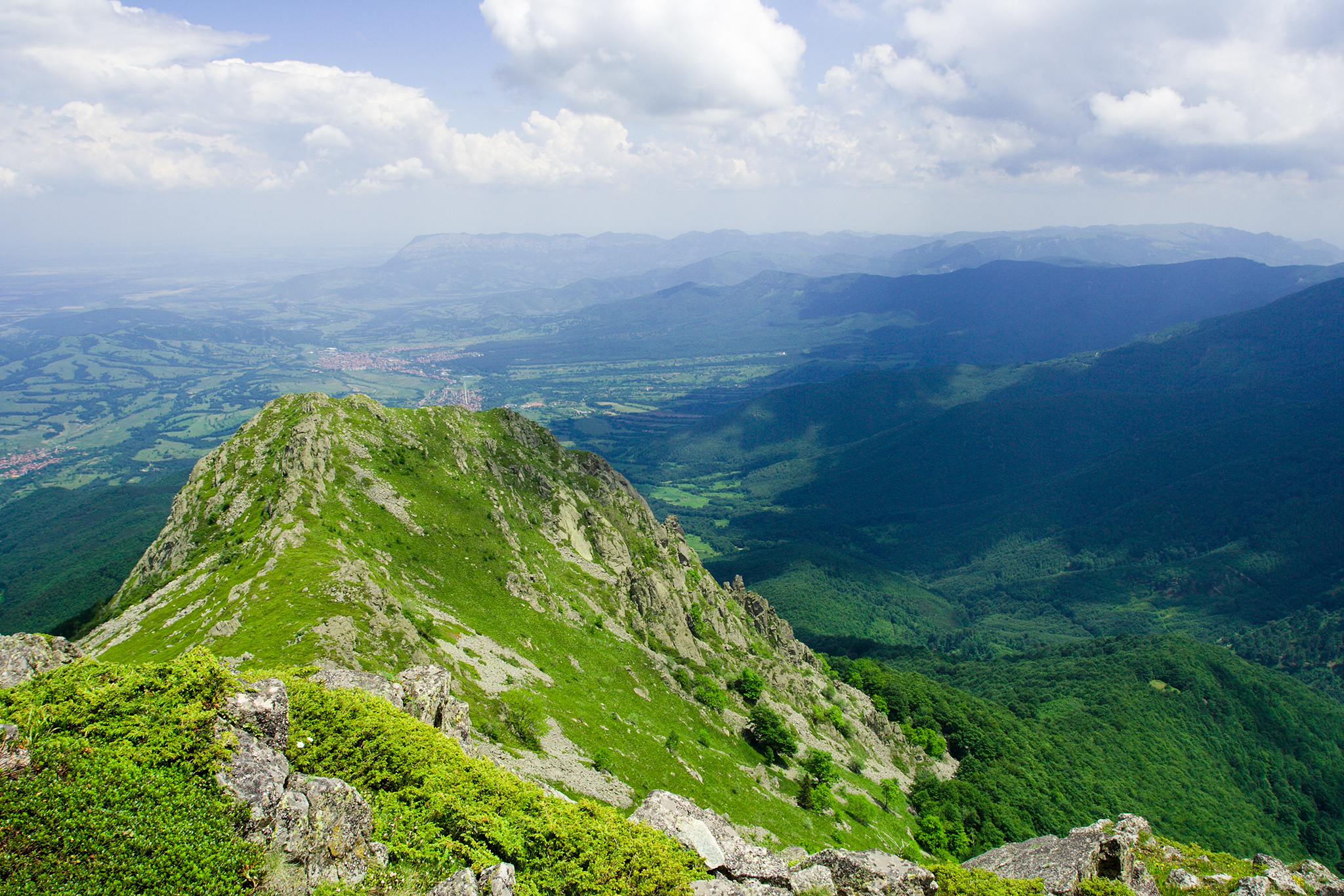 View from Todorini kukli peak, Stara planina mntn, Bulgaria